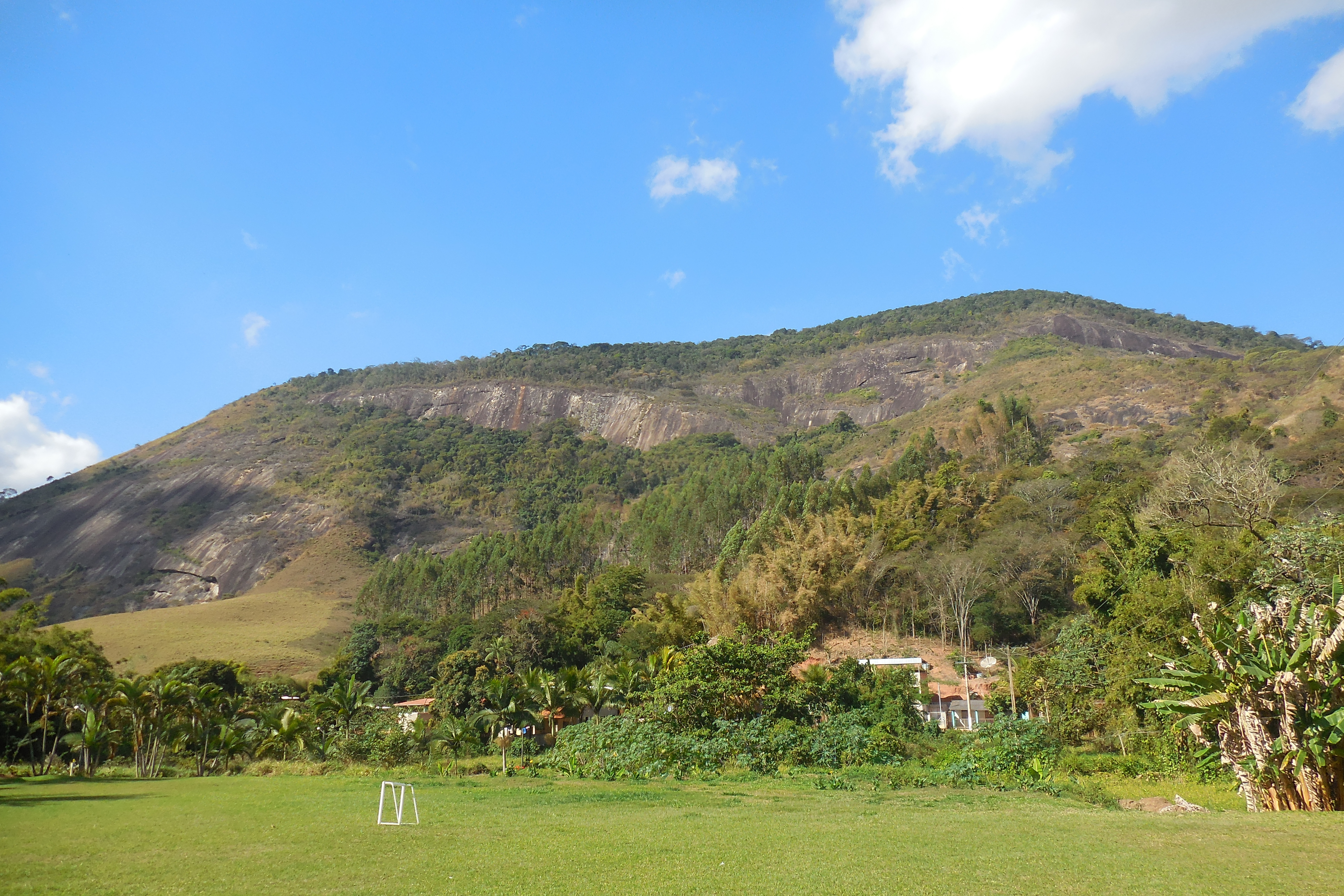 A hill in Marliéria, Minas Gerais, Brazil.